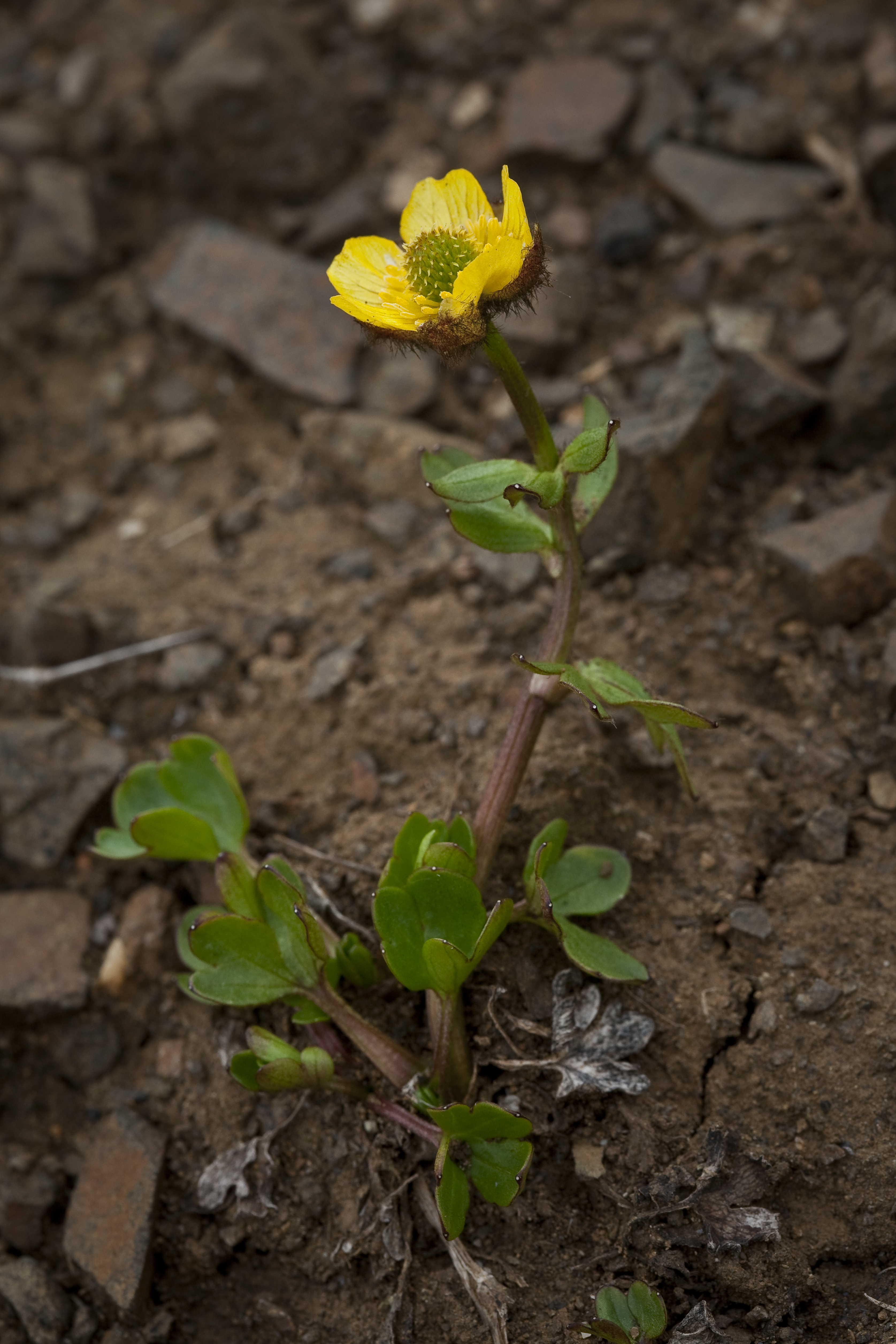 Ranunculus nivalis, Denali National Park and Preserve, AK, USA